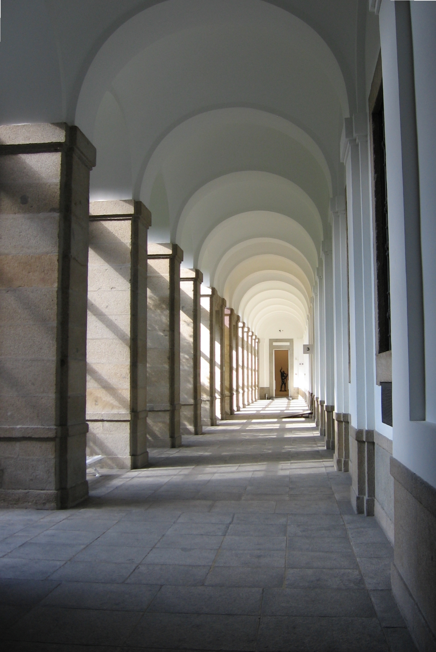 View down a corridor that faces onto the courtyard at the Centro de Arte Reina Sofía